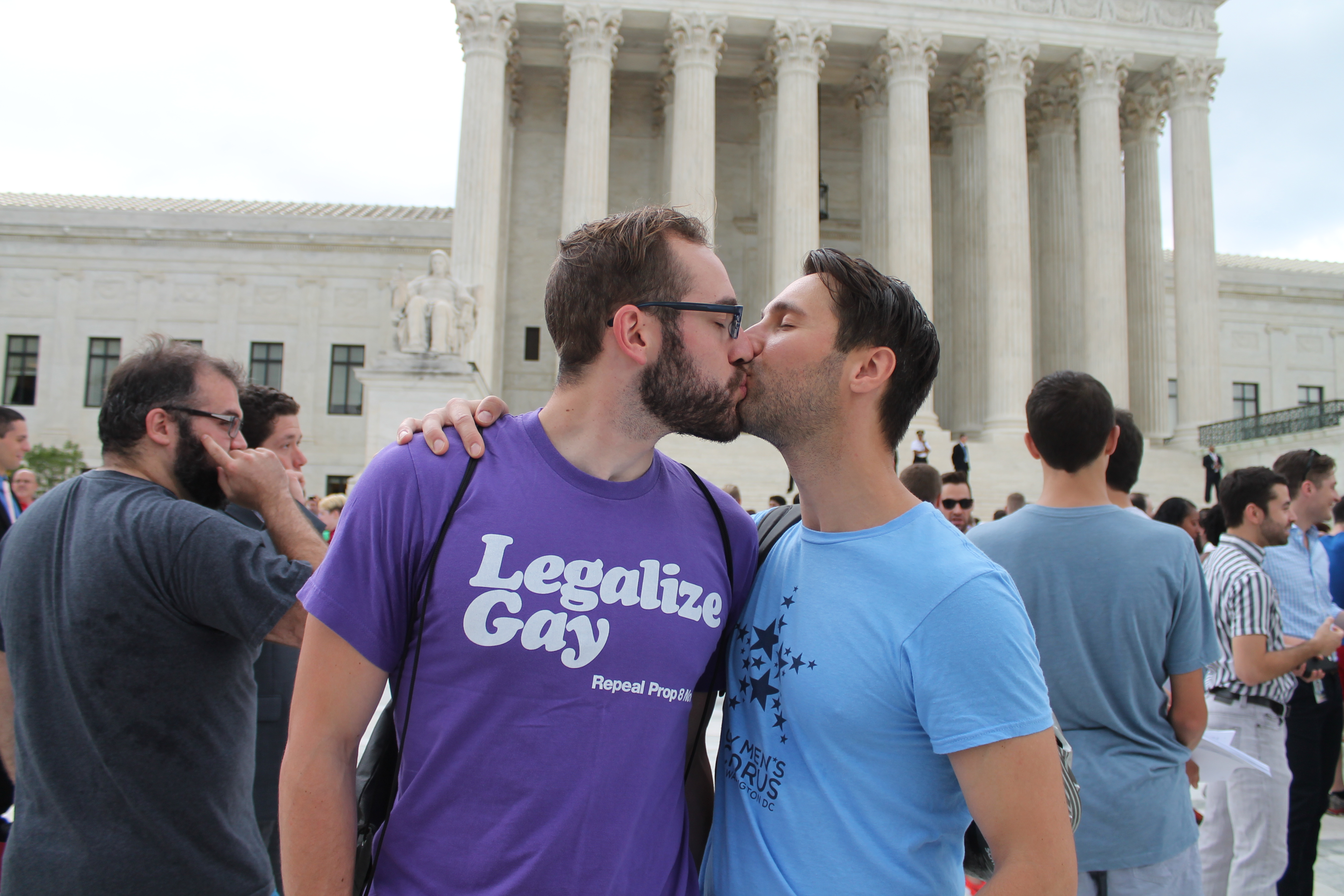 MARRIAGE EQUALITY DECISION DAY RALLY in front of the US Supreme Court on First Street between East Capitol Street and Maryland Avenue, NE, Washington DC on Friday morning, 26 June 2015 by Elvert Barnes Protest Photography Marriage Equality / USA Learn more about the SCOTUS Obergefell v. Hodges case on Wikipedia at Visit Elvert Barnes MARRIAGE EQUALITY same-sex civil unions ongoing project at